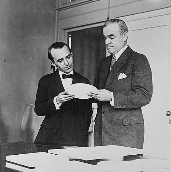 Director of the Mint, Raymond T. Baker, and Anthony de Francisci examining model of new silver dollar, the first of which will be issued by January 1st. Eight sculptors competed and Mr. de Francisci's design was accepted and approved by President Harding.